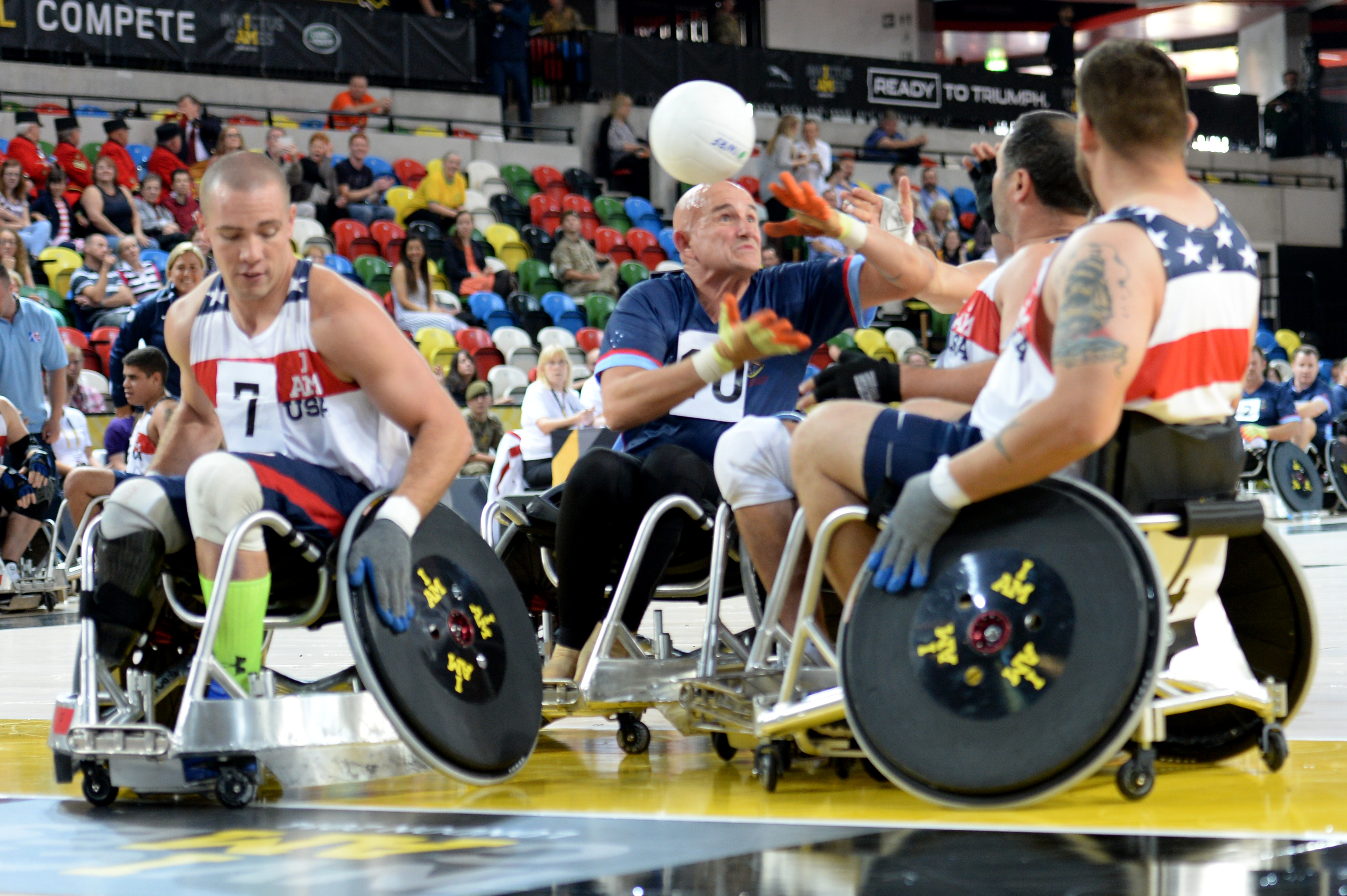 Three American defenders knock the ball away from an Australian player during the United State's 14-4 victory over Australia in a wheelchair rugby pool match at the 2014 Invictus Games. Invictus Games is an international competition that brings together wounded, injured and ill service members in the spirit of friendly athletic competition.American Soldiers, Sailors, Airmen and Marines are representing the United States in the competition which is being held in London Sept. 10-14. (U.S. Navy photo by Mass Communication Specialist 2nd Class Joshua D. Sheppard/Released)